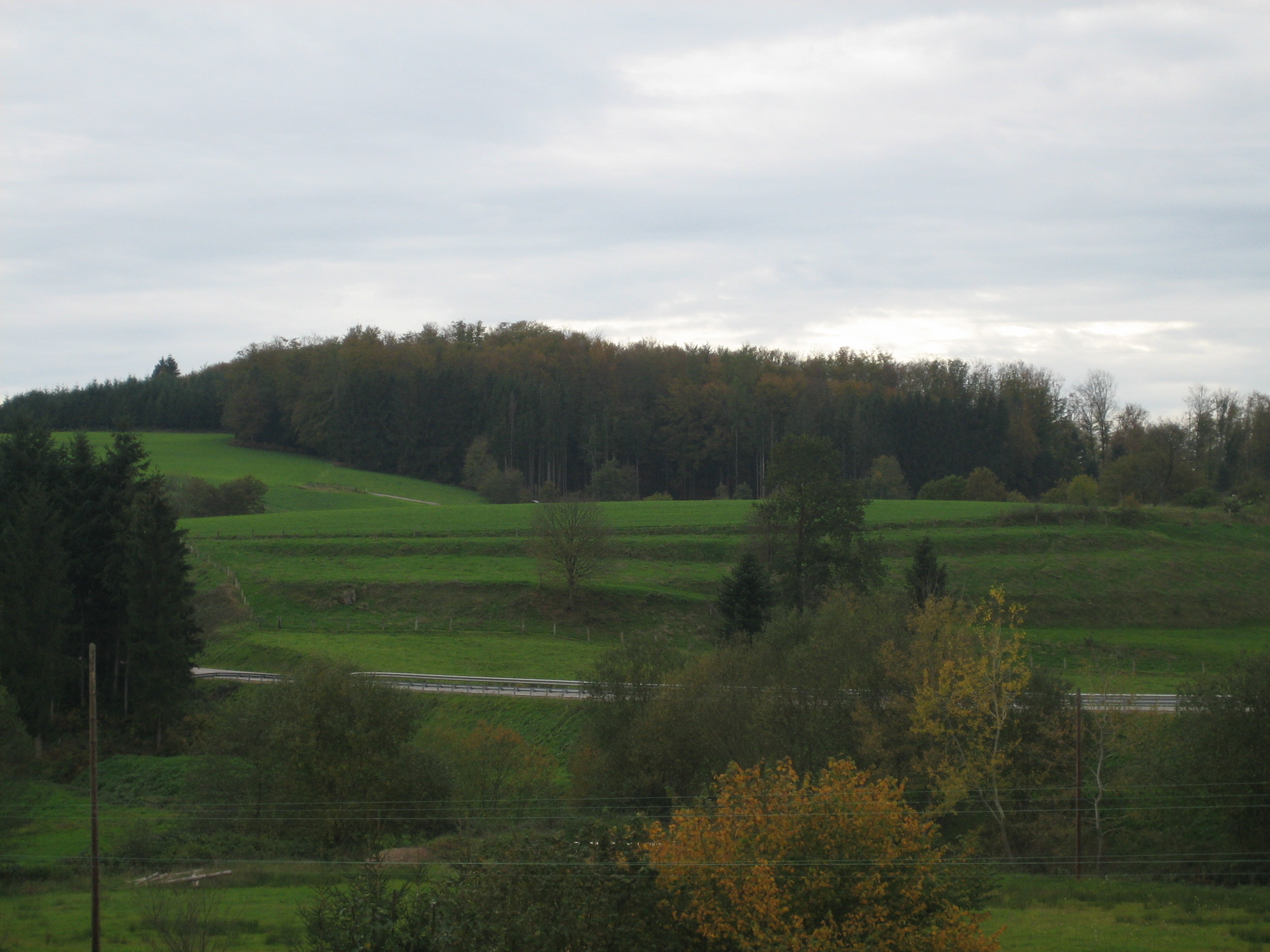 View of the sight of Châtillon mountain in Deycimont (Vosges, France), 2006/10/28, by Raphaël Tassin (raphdvoj)